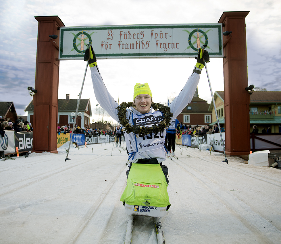 Aron Anderson at Vasaloppet 2015